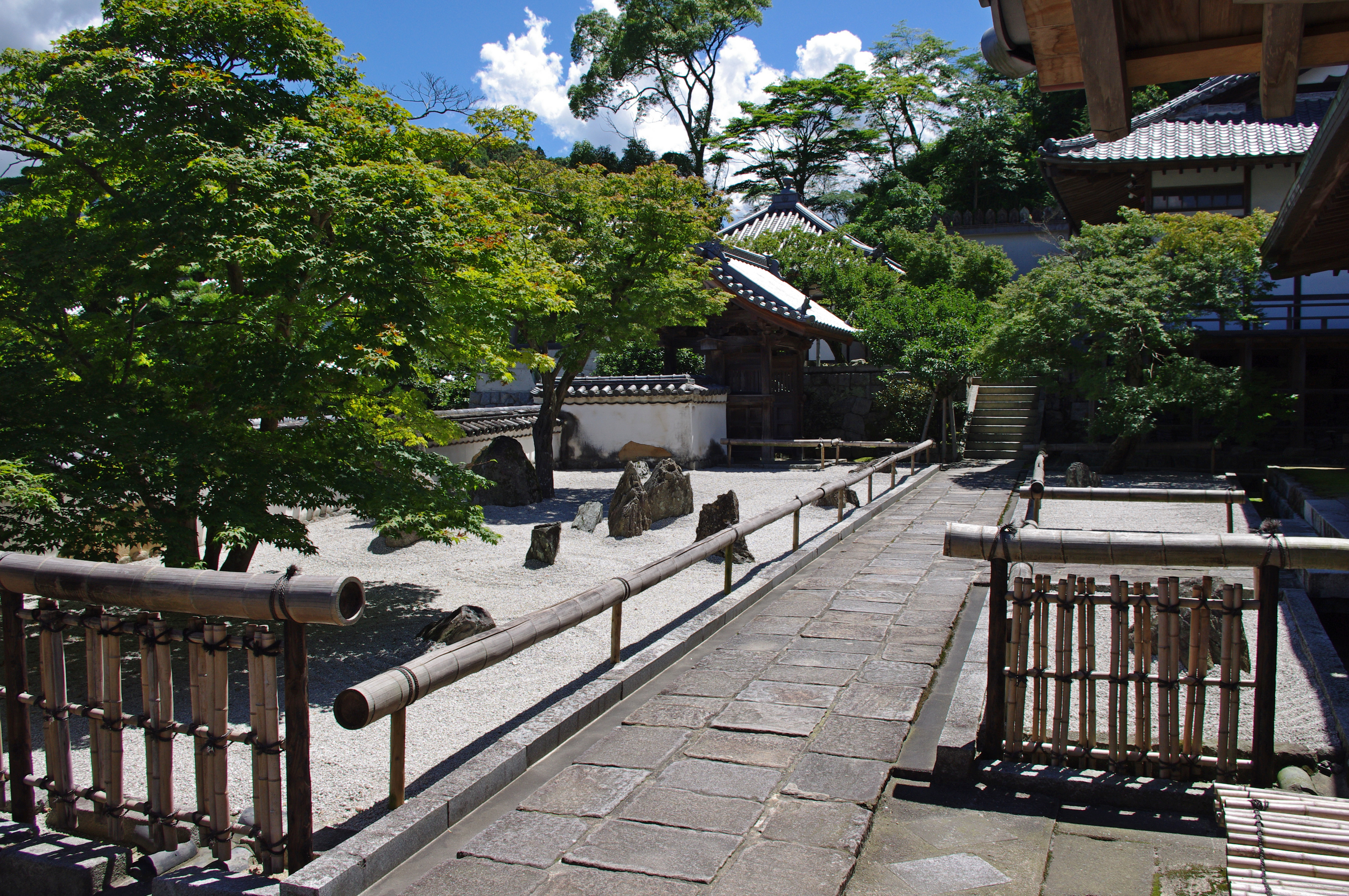 The garden of Komyozenji Temple in Dazaifu